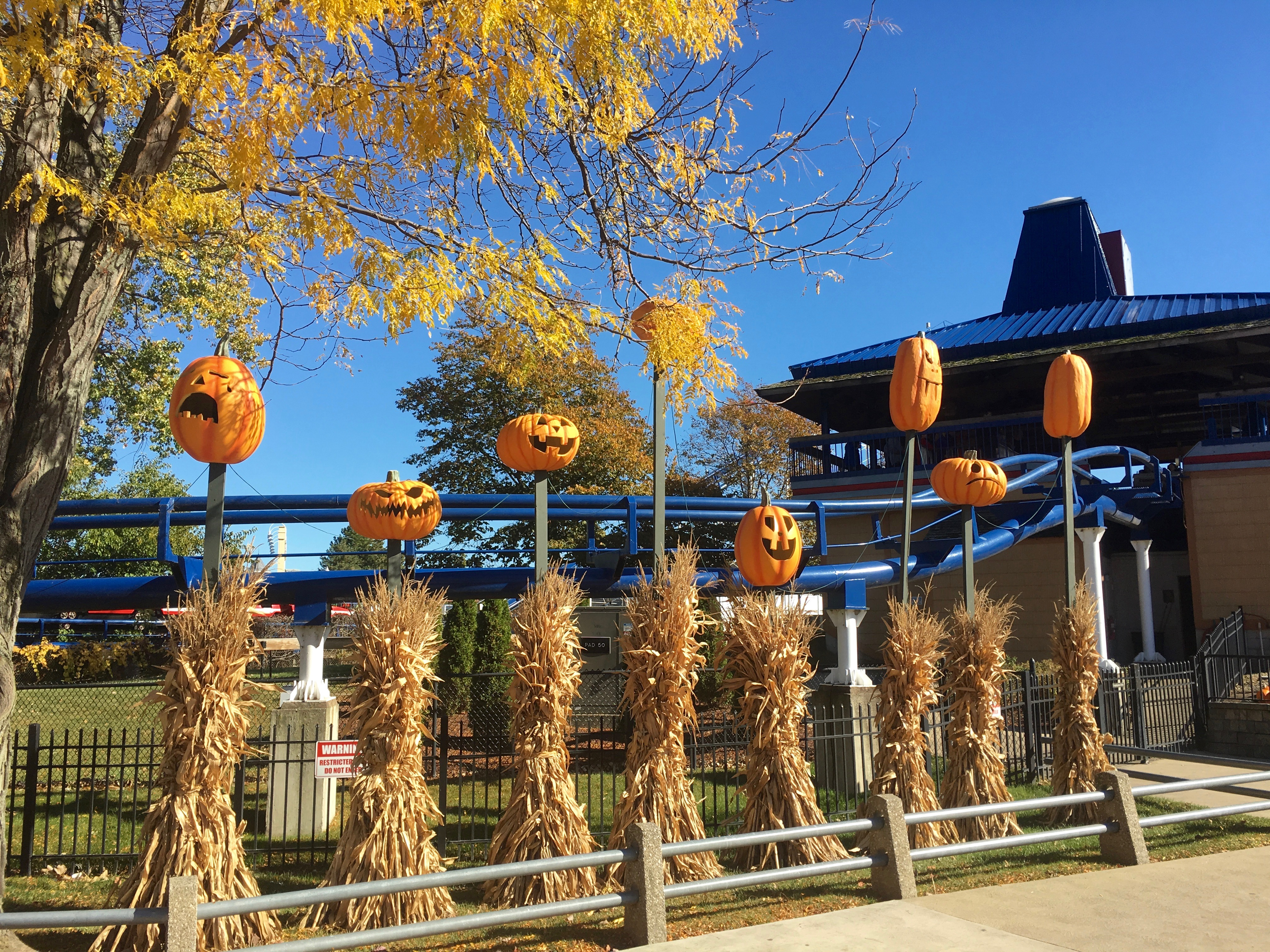 Pumpkins display during HalloWeekends near Corkscrew (Cedar Point) in Cedar Point.